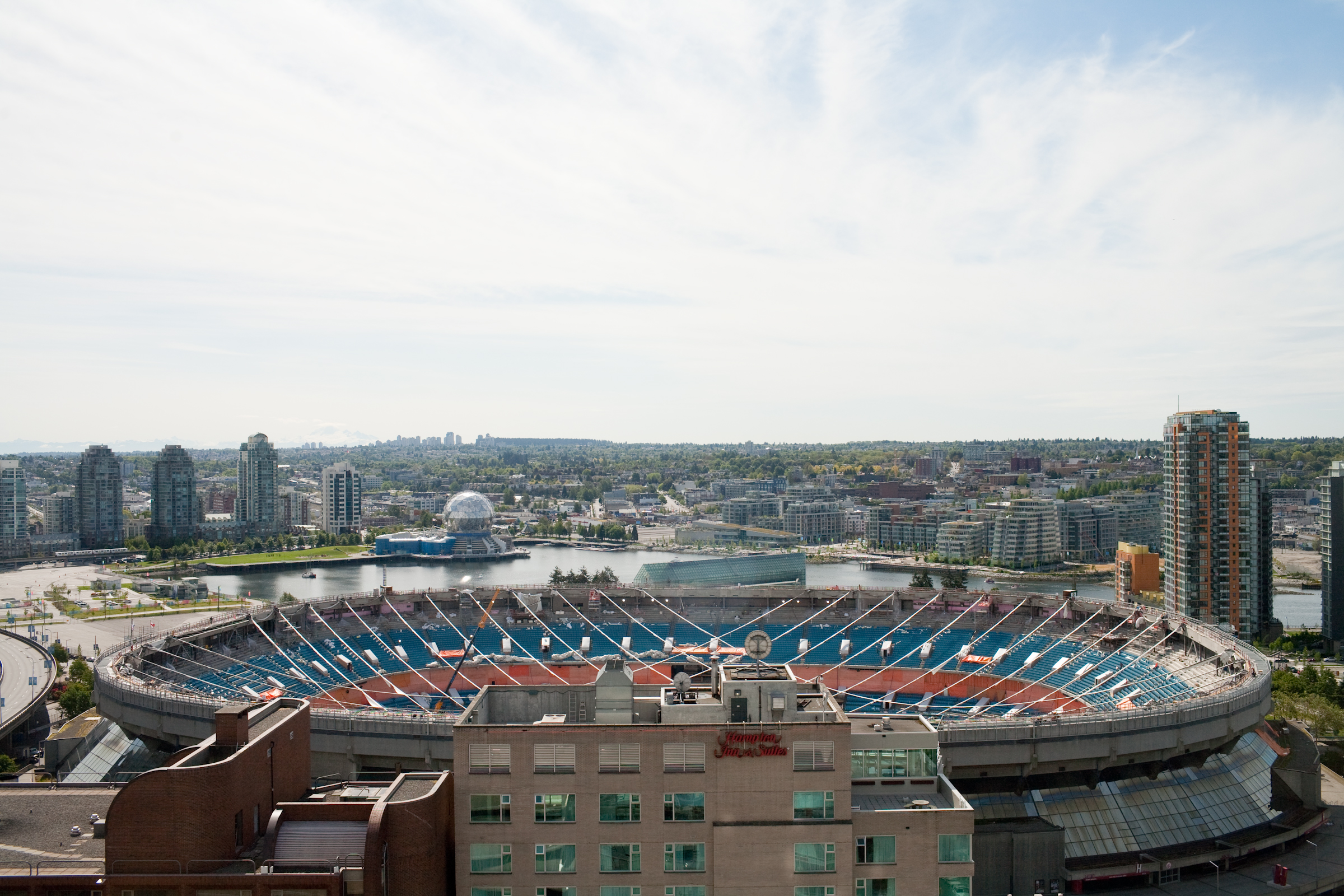 May 19th update - yeah I know these descriptions are getting boring